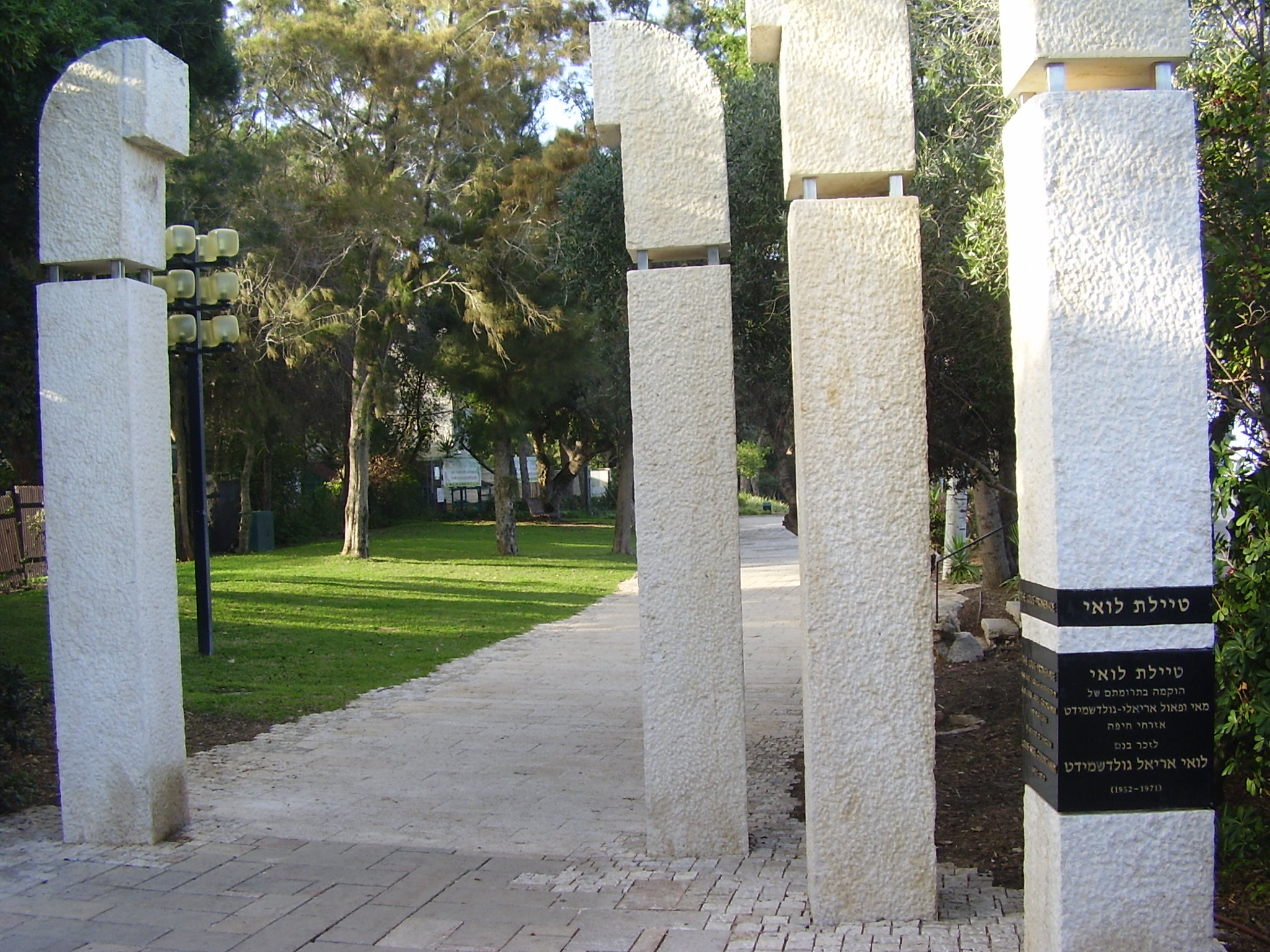 entrance to louis promenade in carmel, haifa